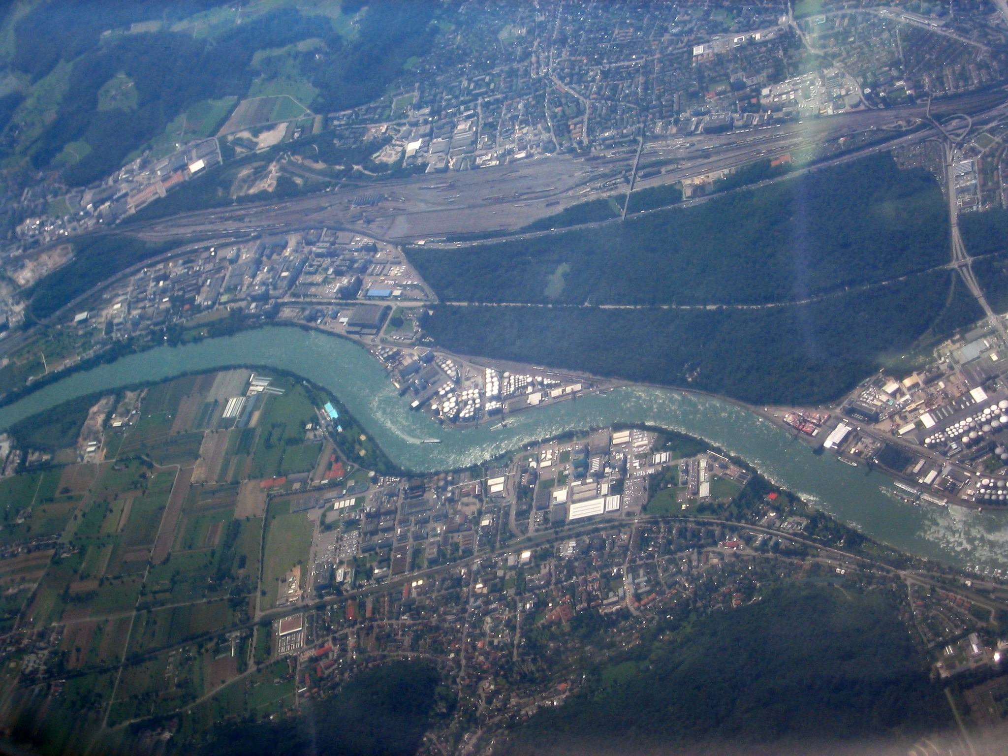 Rhine at Grenzach/Schweizerhalle